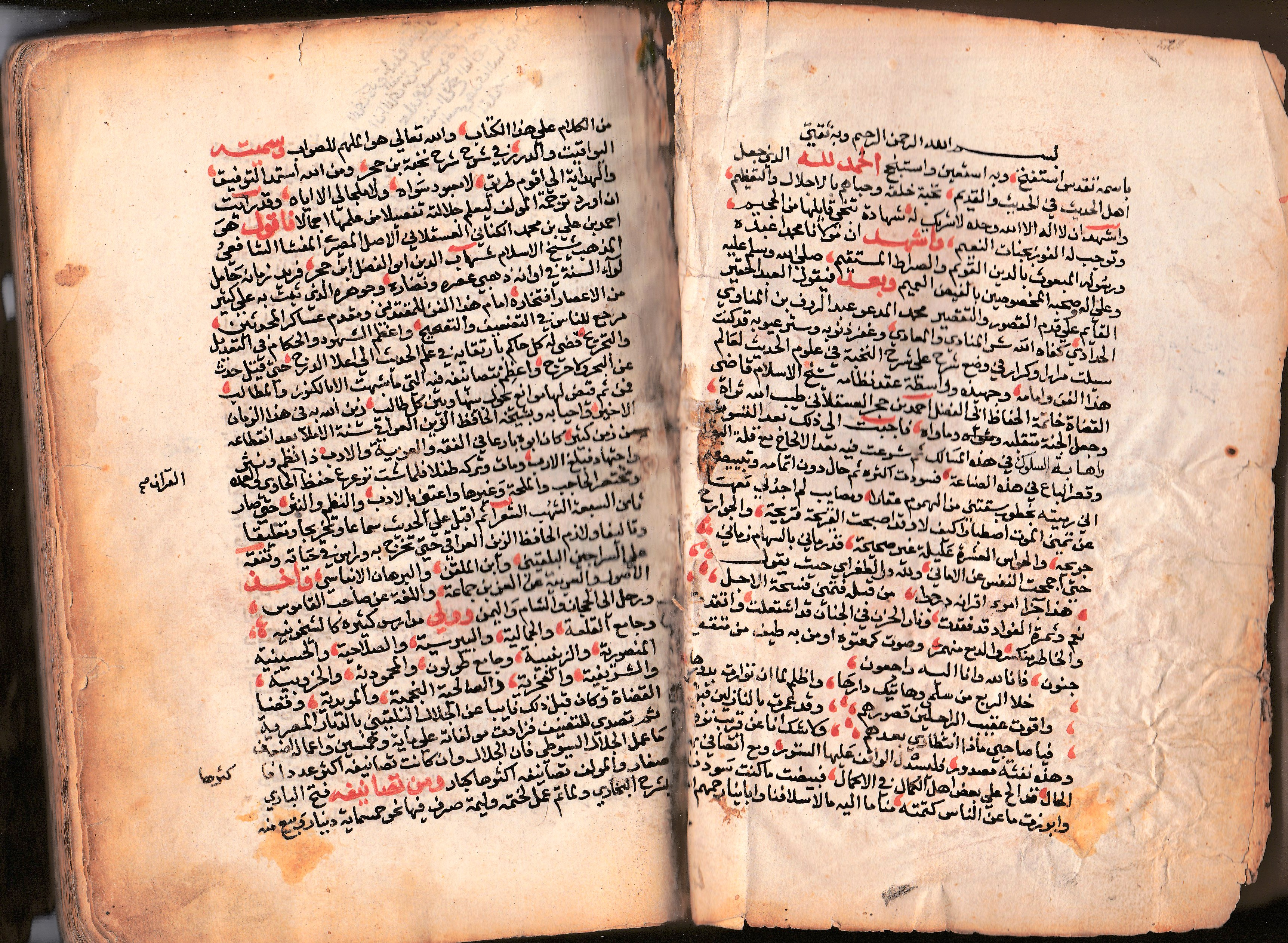 This manuscript was purchased and acquired by Sheikh Qasim Effendi Mufti in 1843 But the writer says that he wrote it in 1134 H/1722